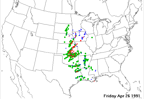 Storm reports from April 26, 1991